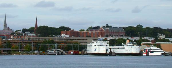 New London skyline with Cross Sound ferries and Block Island Express ferry